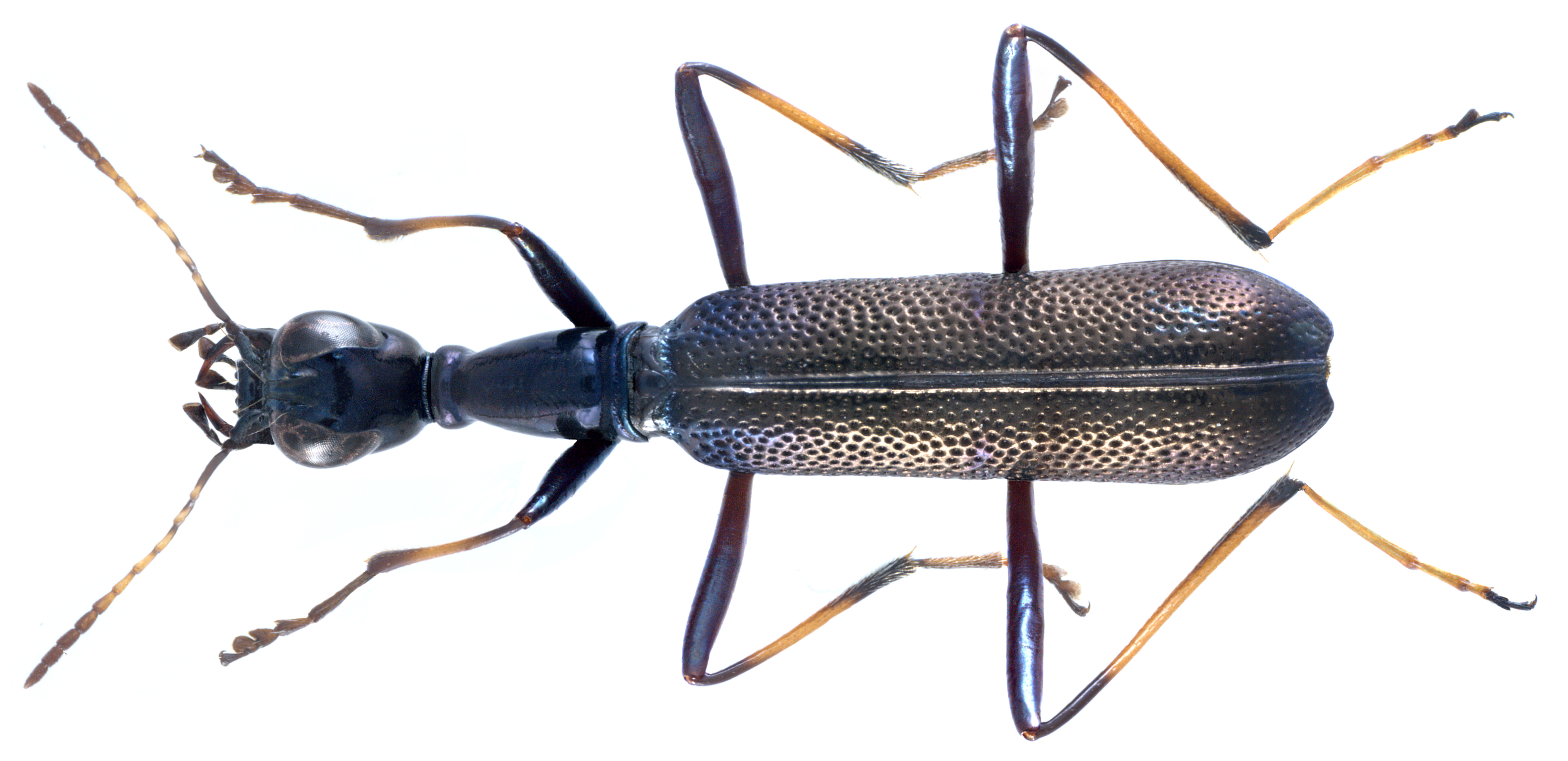 Family: Carabidae Size: 8,8 mm Location: Vietnam North, Vinh Phuc Prov., vic. Tam Dao Town, Tam Dao NP leg. A.Skale, 2.-5.V.2013; det. J.Wiesner, 2013 Photo: U.Schmidt, 2013